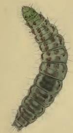 Stainton’s Natural History of the Tineina (1855–1873): Syncopacma coronillella